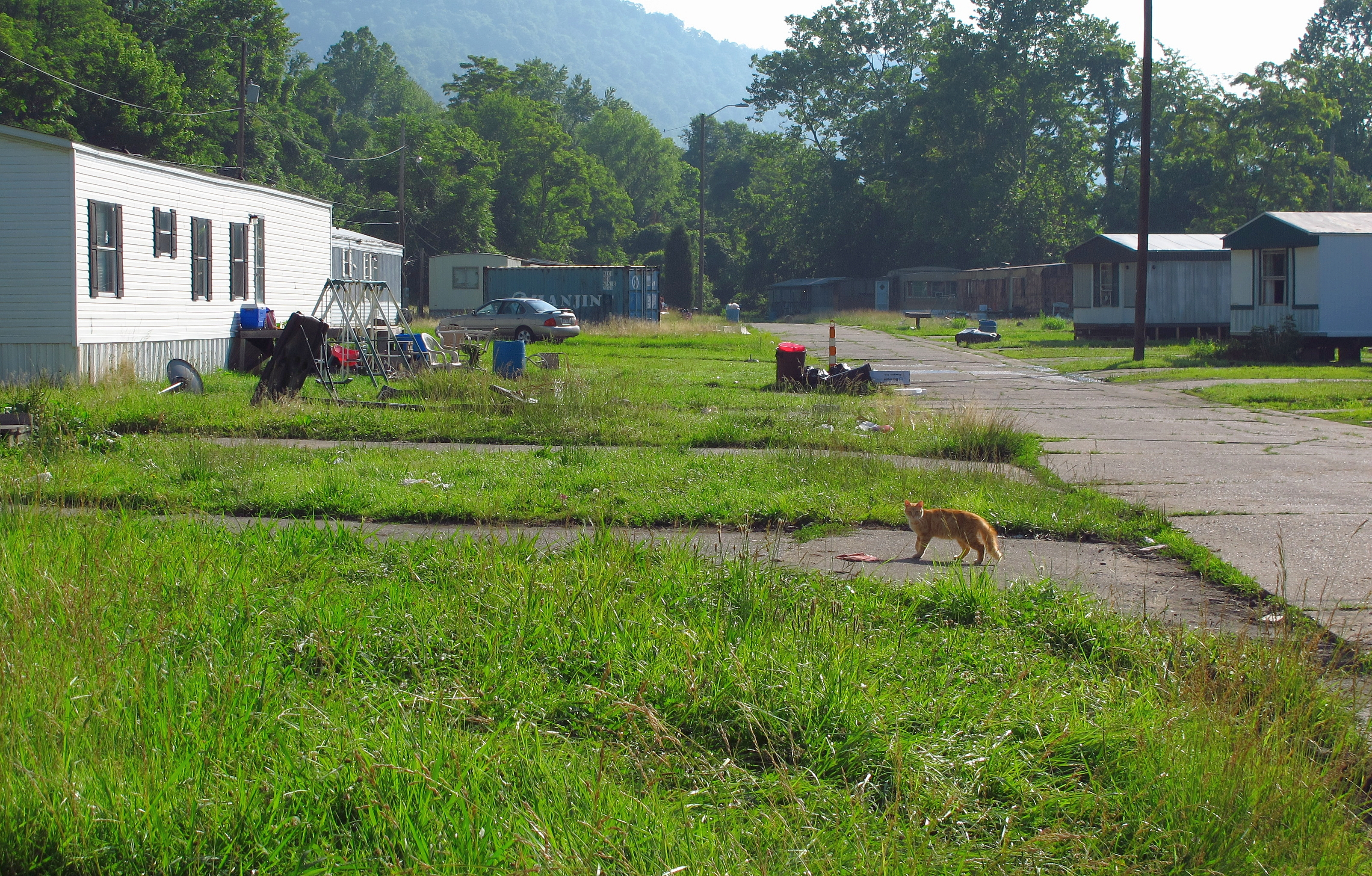 Royal Mobile Home Court in Monarch, West Virginia.